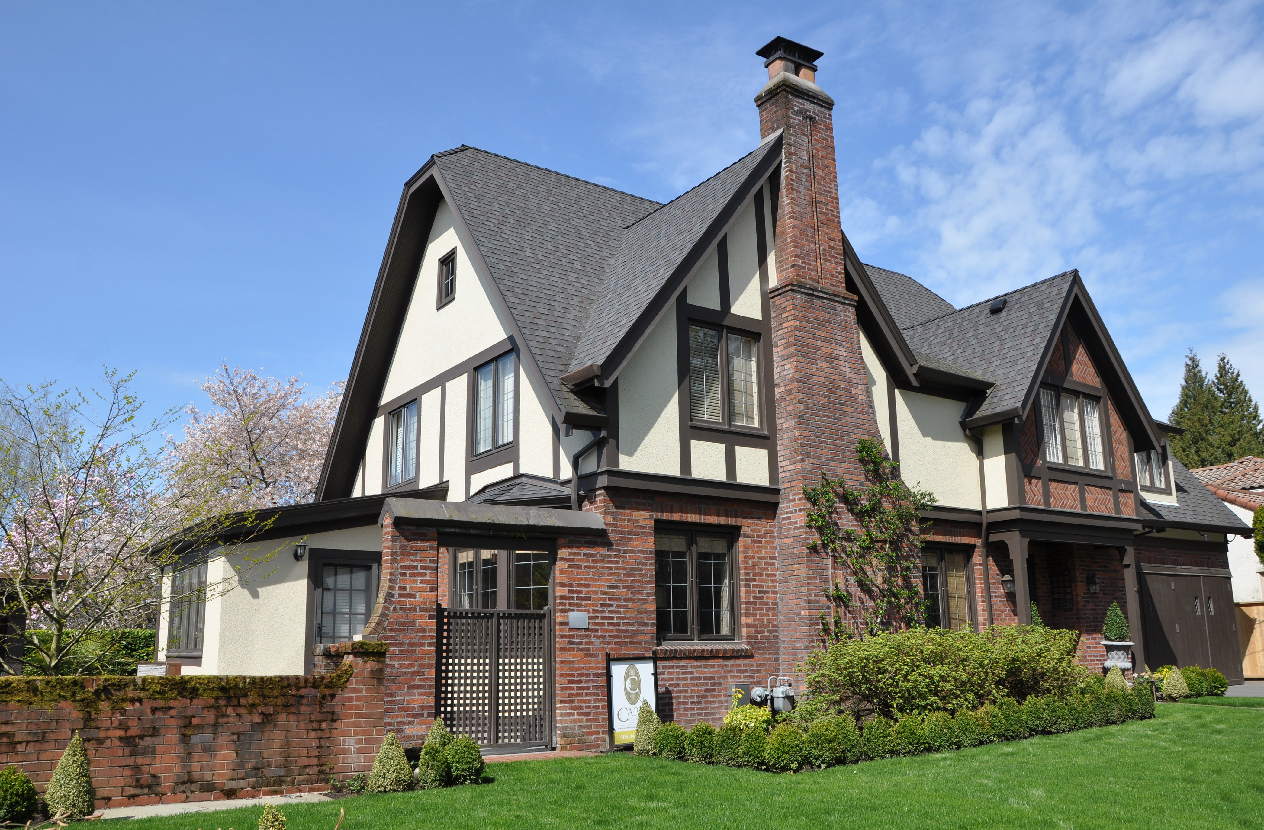 James Hickey House on the National Register of Historic Places in southeast Portland in the U.S. state of Oregon